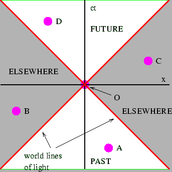 Taken from a GNUFDL source Introductory Physics, figure 4.3 Copyright 1998, 2000, 2001, 2003 David J. Raymond, under GNU FDL